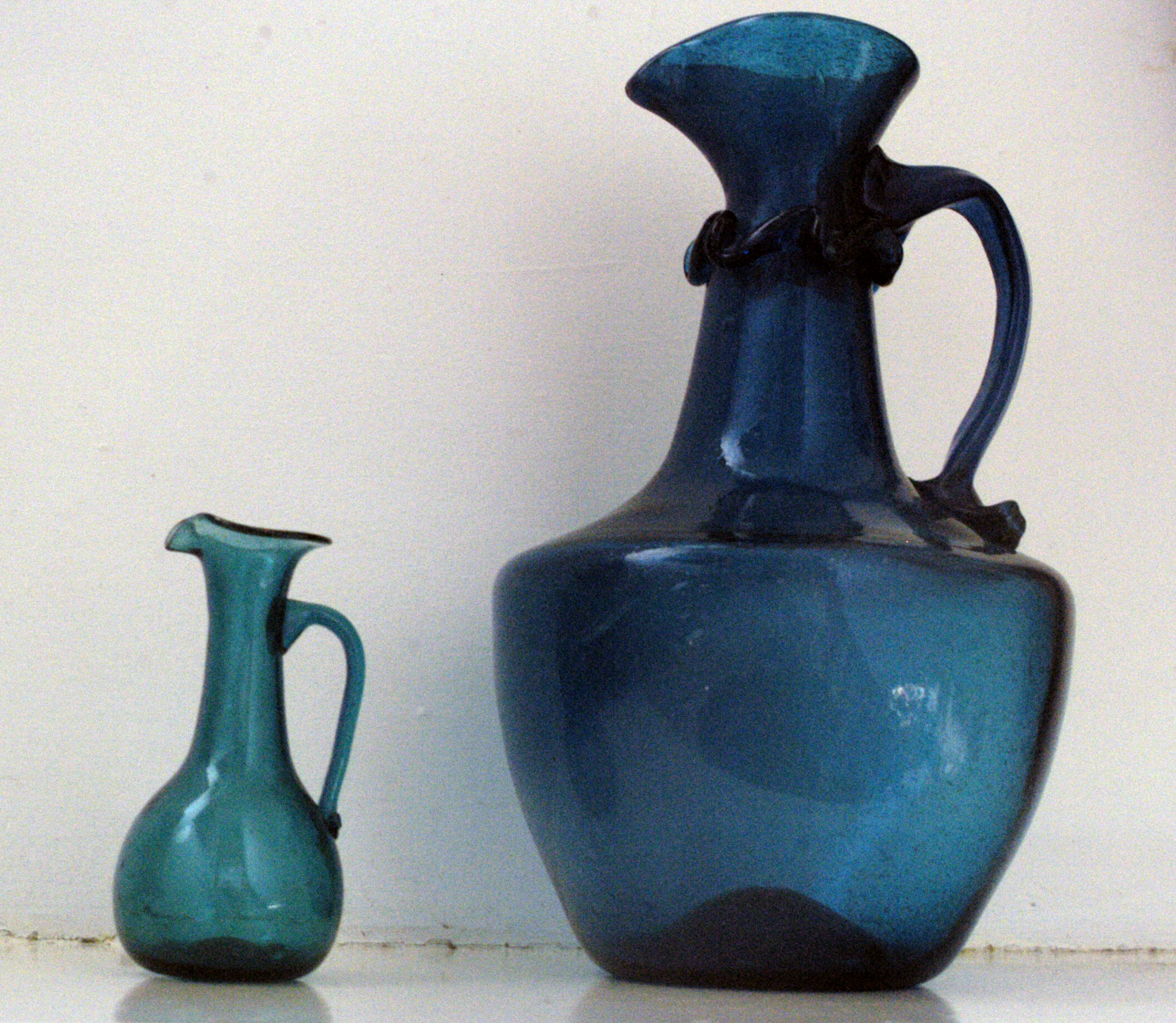 Hebron jugs. Largest 13 inches tall. 1960.